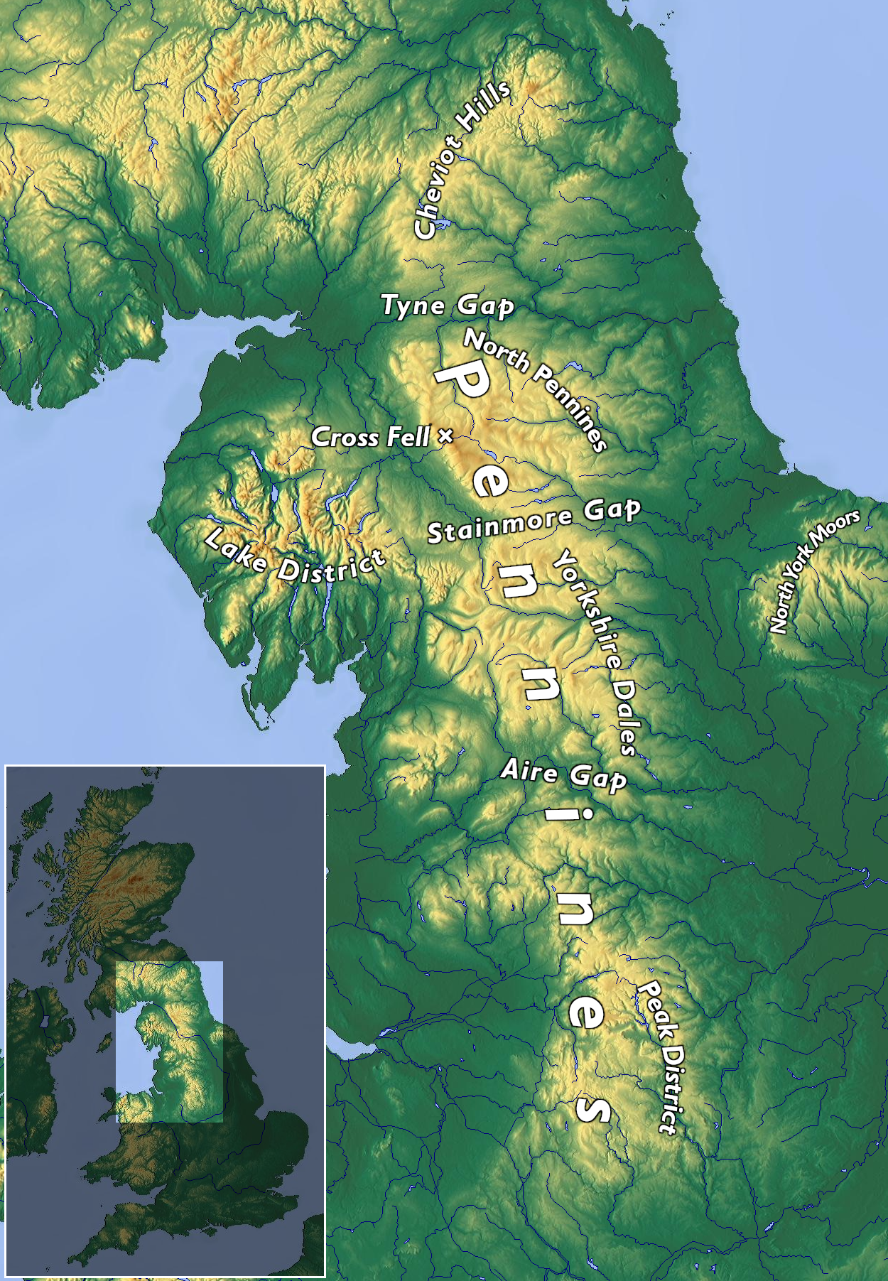 Topographic map of the Pennines